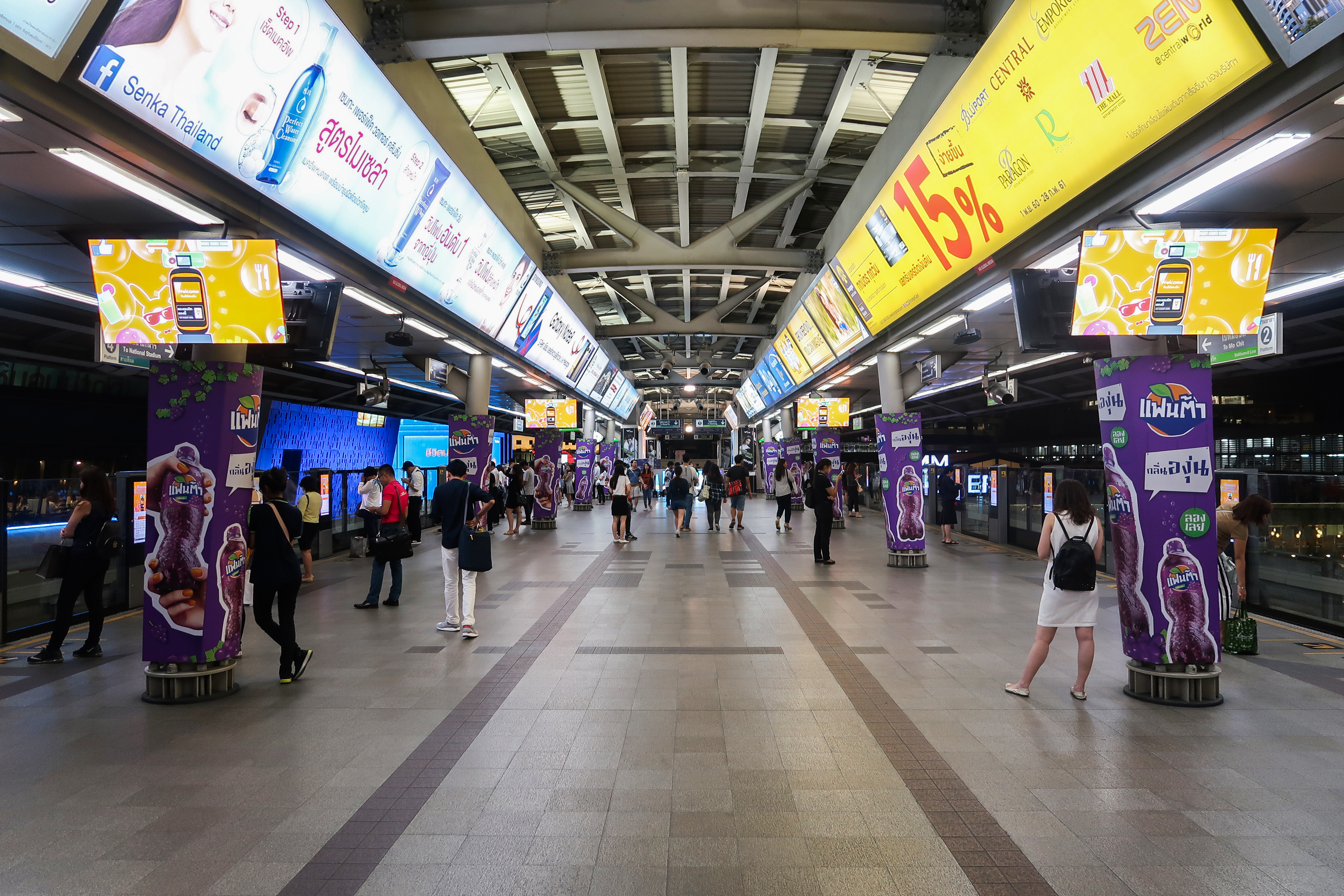 Sian Station Upper Platform